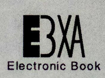 Logo from Sony's EBXA CD-ROM format used on early e-book readers